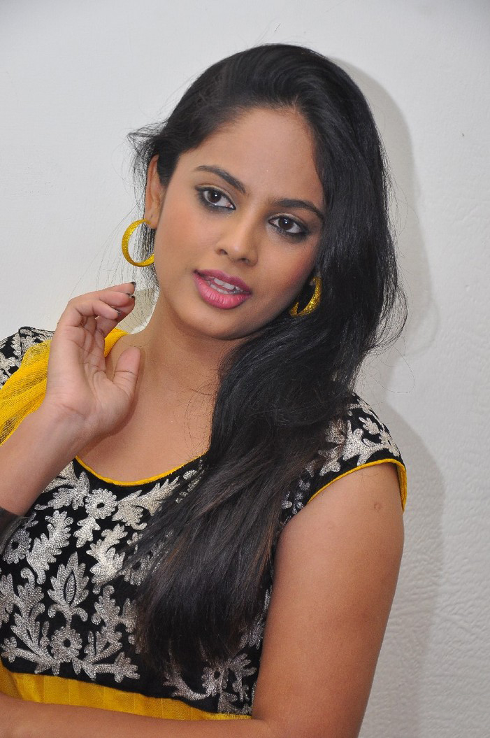 Nanditha